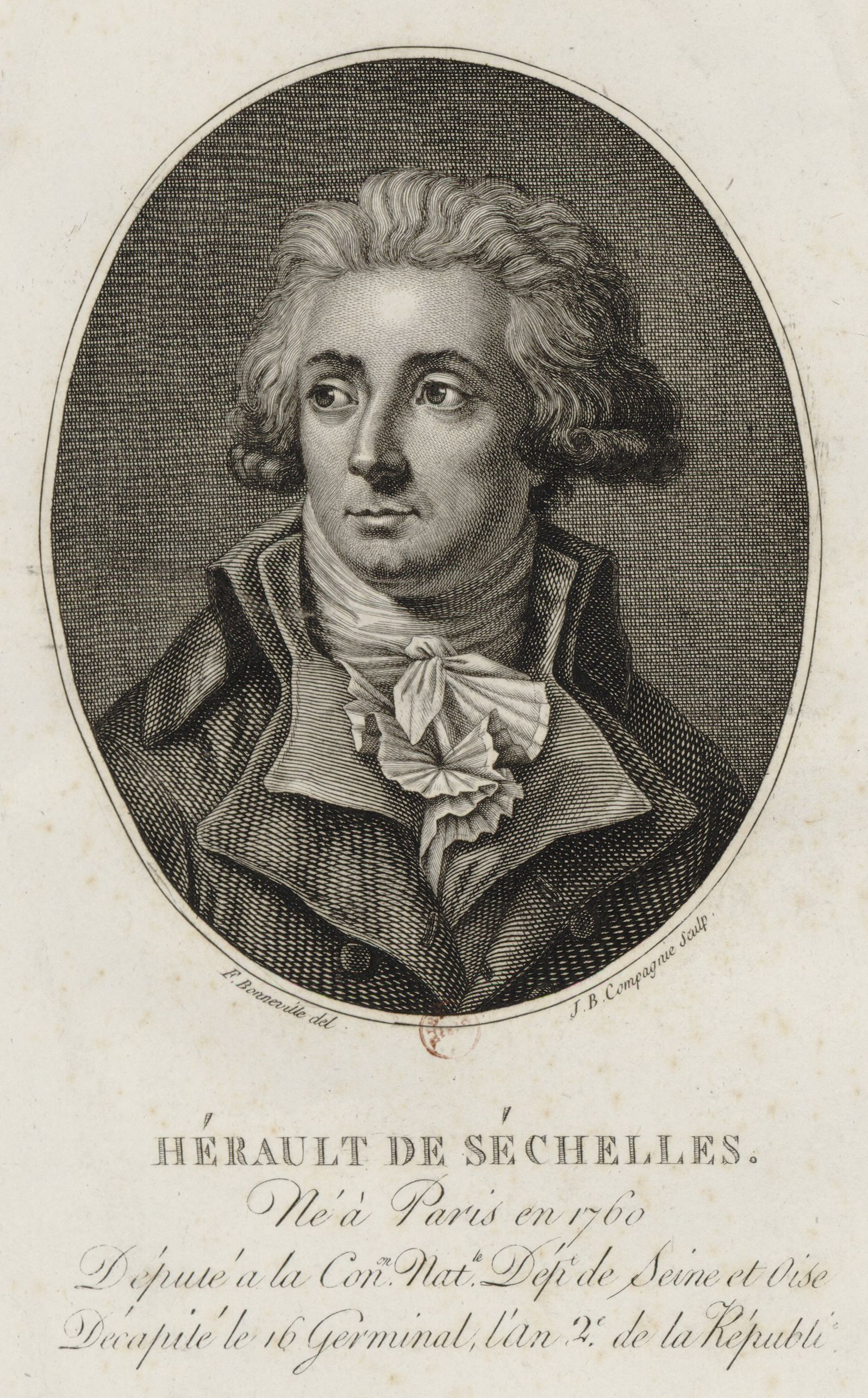 French politician and revolutionary leader Marie-Jean Hérault de Séchelles (1759-1794)